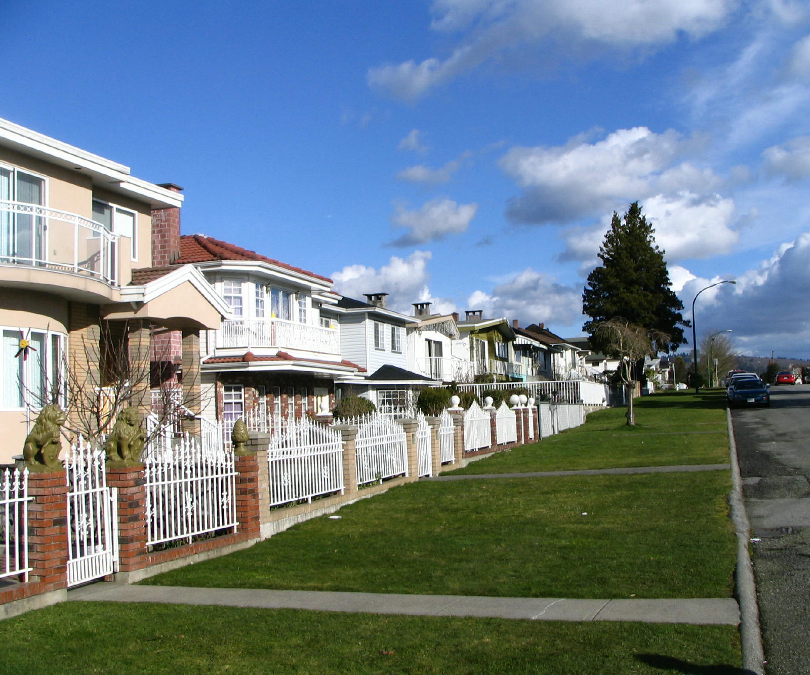 This image was taken by me, Flying Penguin of Pacific Spirit Photography ( in Burnaby, British Columbia, Canada.